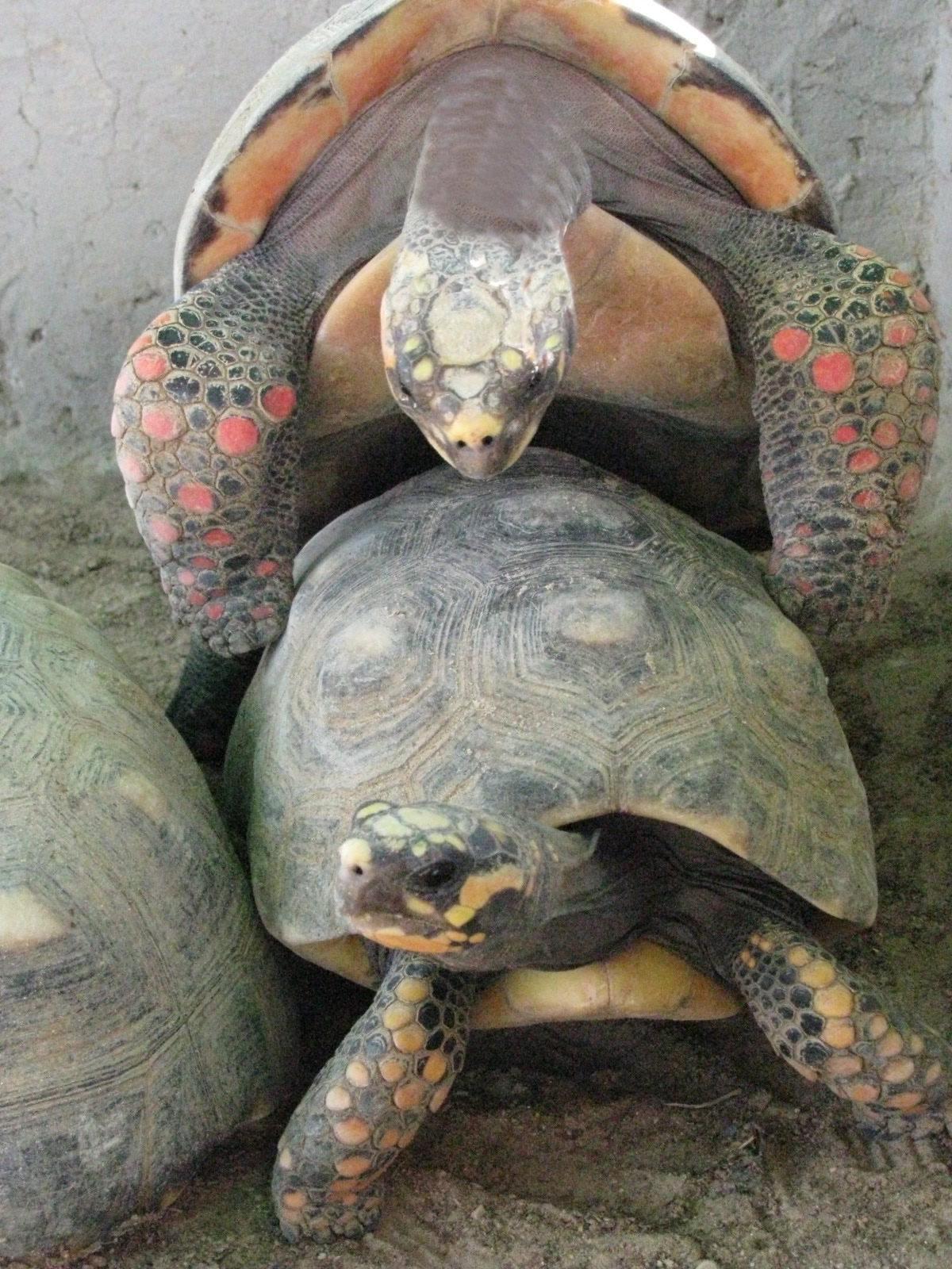 Geochelone denticulata Mating from Venezuela